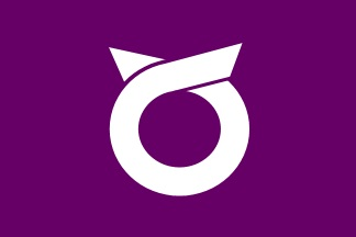 Flag of Itoman Okinawa